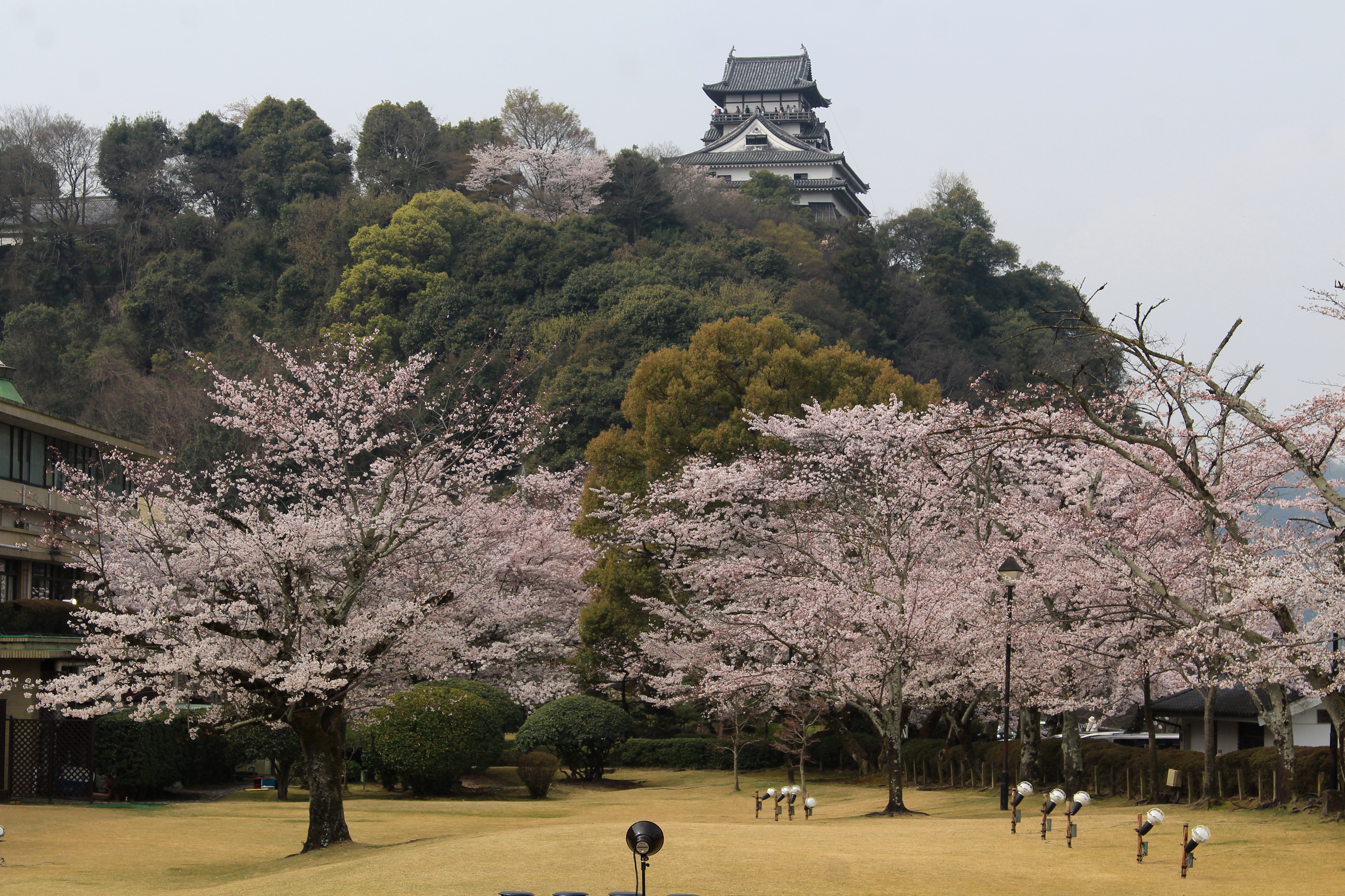 Inuyama Castle Keep Tower and Sakura in Inuyama, Aichi prefecture, Japan.